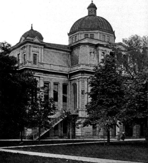 University Hall in Ann Arbor